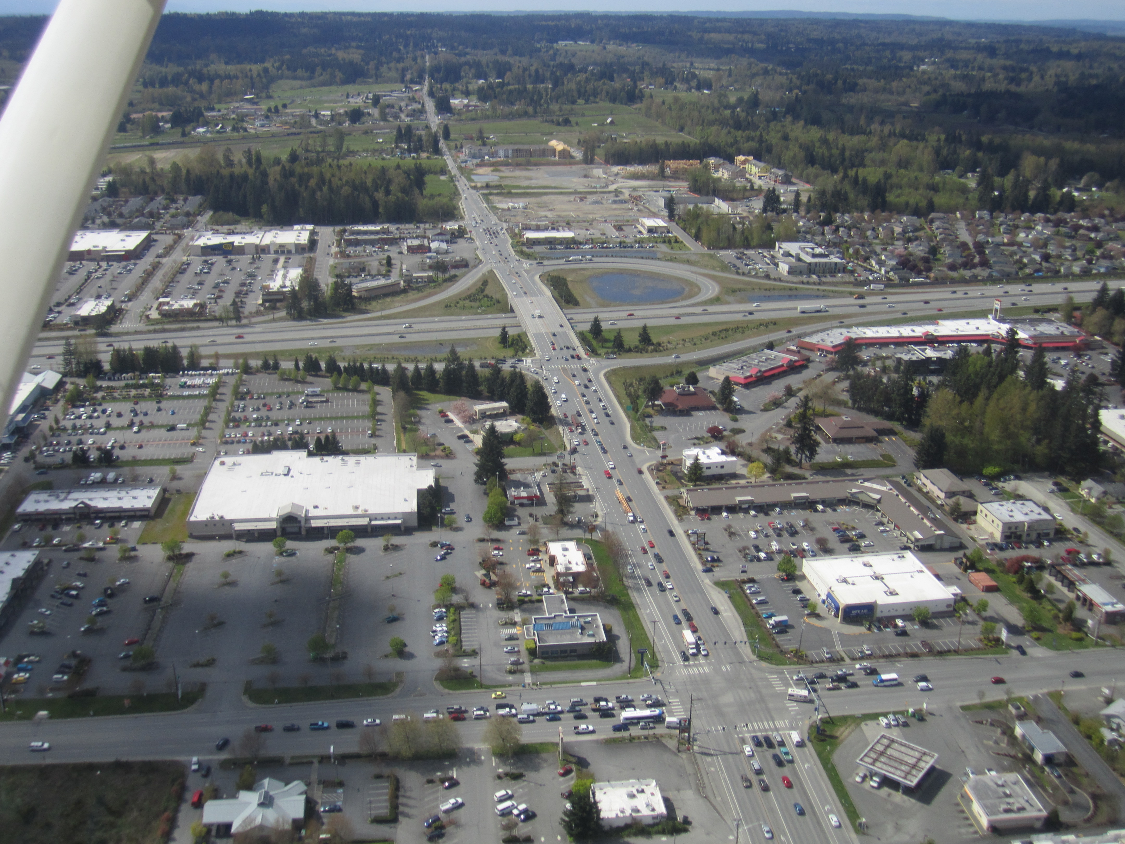 Aerial view of Washington State Route 531 and Interstate 5 in Smokey Point, looking west from over Smokey Point Boulevard.